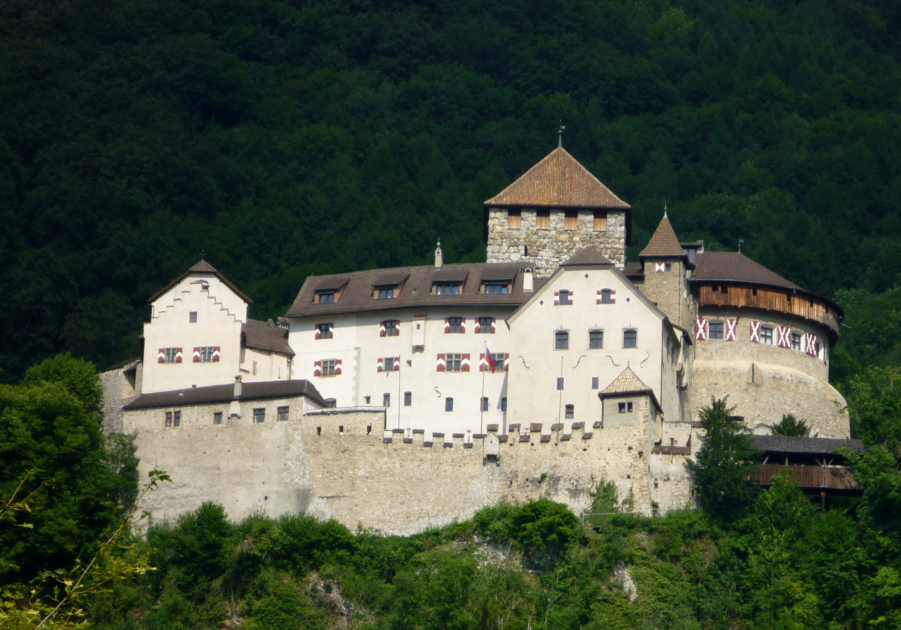 Vaduz Castle: the landmark of Vaduz, the capital of Liechtenstein